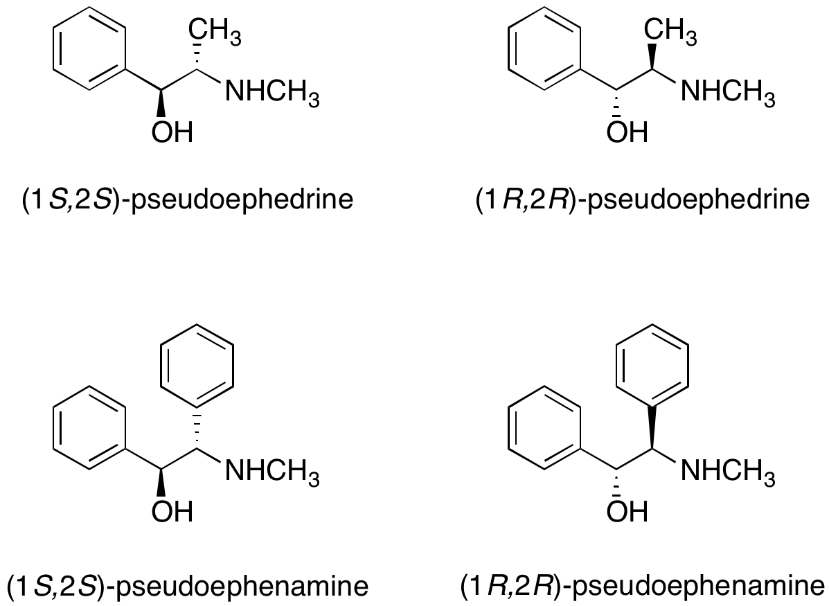 chemdraw